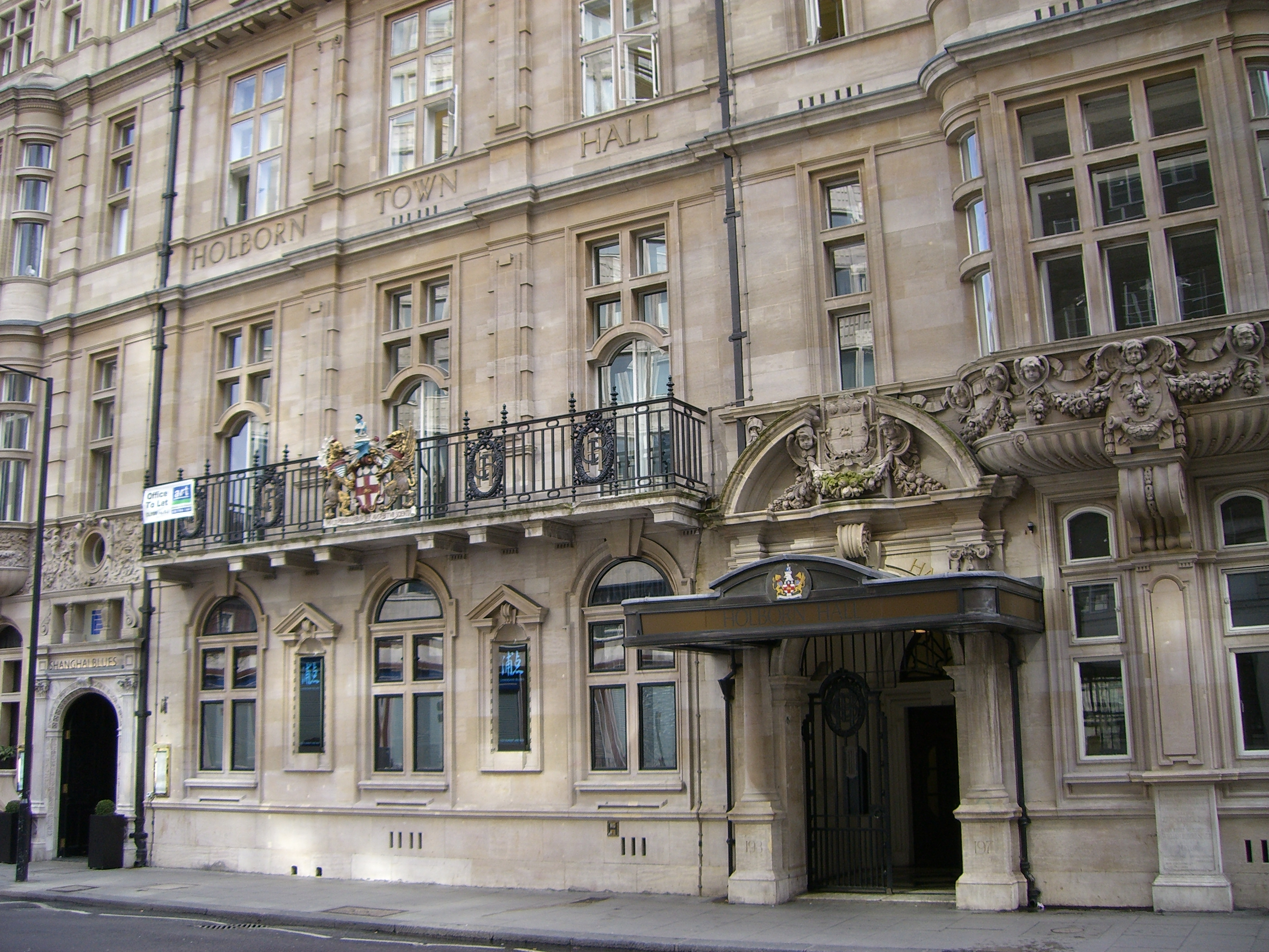 Holborn Town Hall Photo taken by User:Edward on 25 March 2006 with a Casio EX-S600.